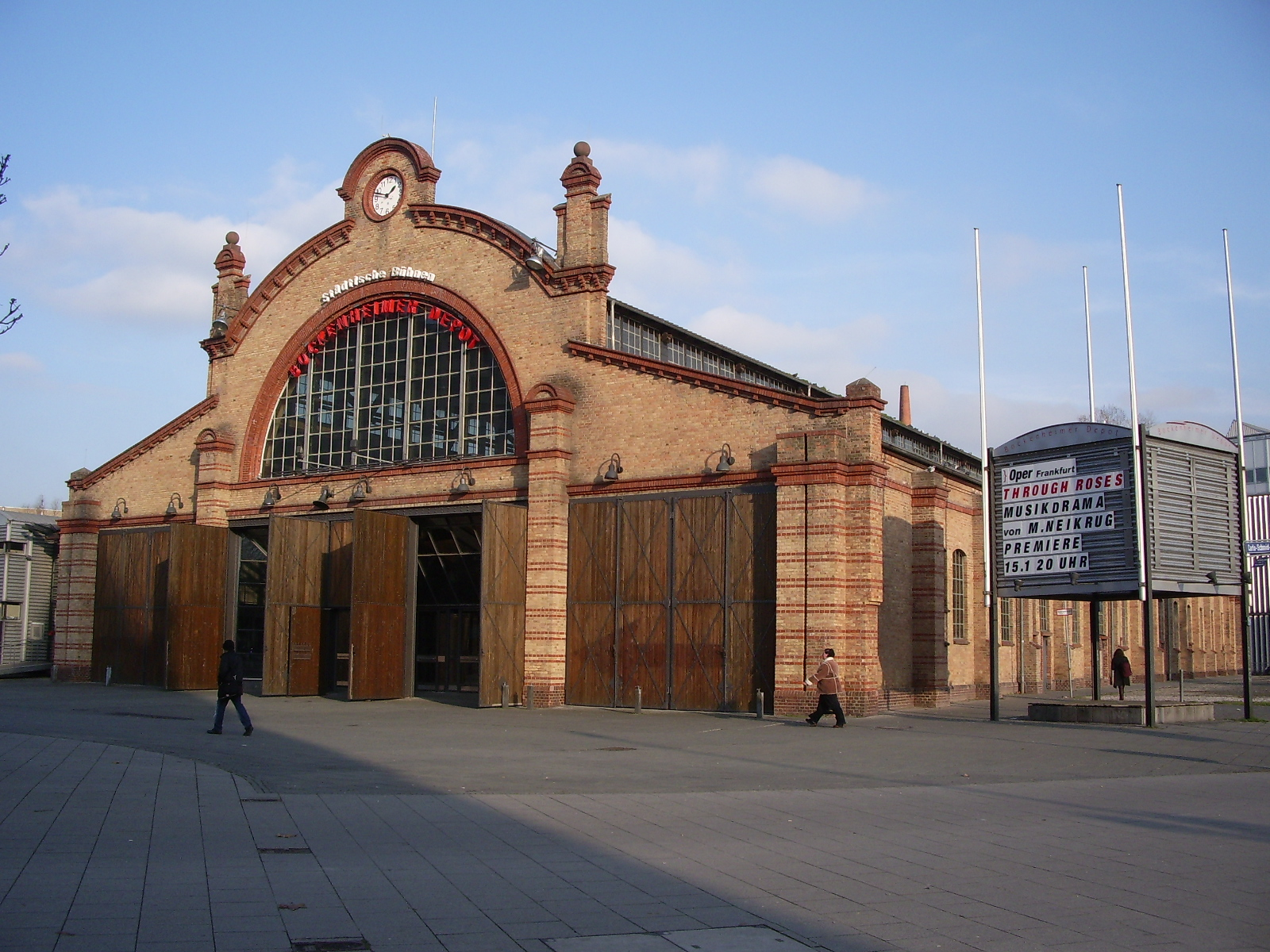 Former tramway depot at Bockenheim (Frankfurt am Main, Germany), now used as Theatre. Picture by myself, December 21. 2005. Published under GNU-FDL.